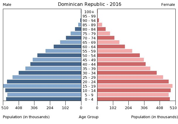 The population pyramid of the Dominican Republic illustrates the age and sex structure of population and may provide insights about political and social stability, as well as economic development. The population is distributed along the horizontal axis, with males shown on the left and females on the right. The male and female populations are broken down into 5-year age groups represented as horizontal bars along the vertical axis, with the youngest age groups at the bottom and the oldest at the top. The shape of the population pyramid gradually evolves over time based on fertility, mortality, and international migration trends.